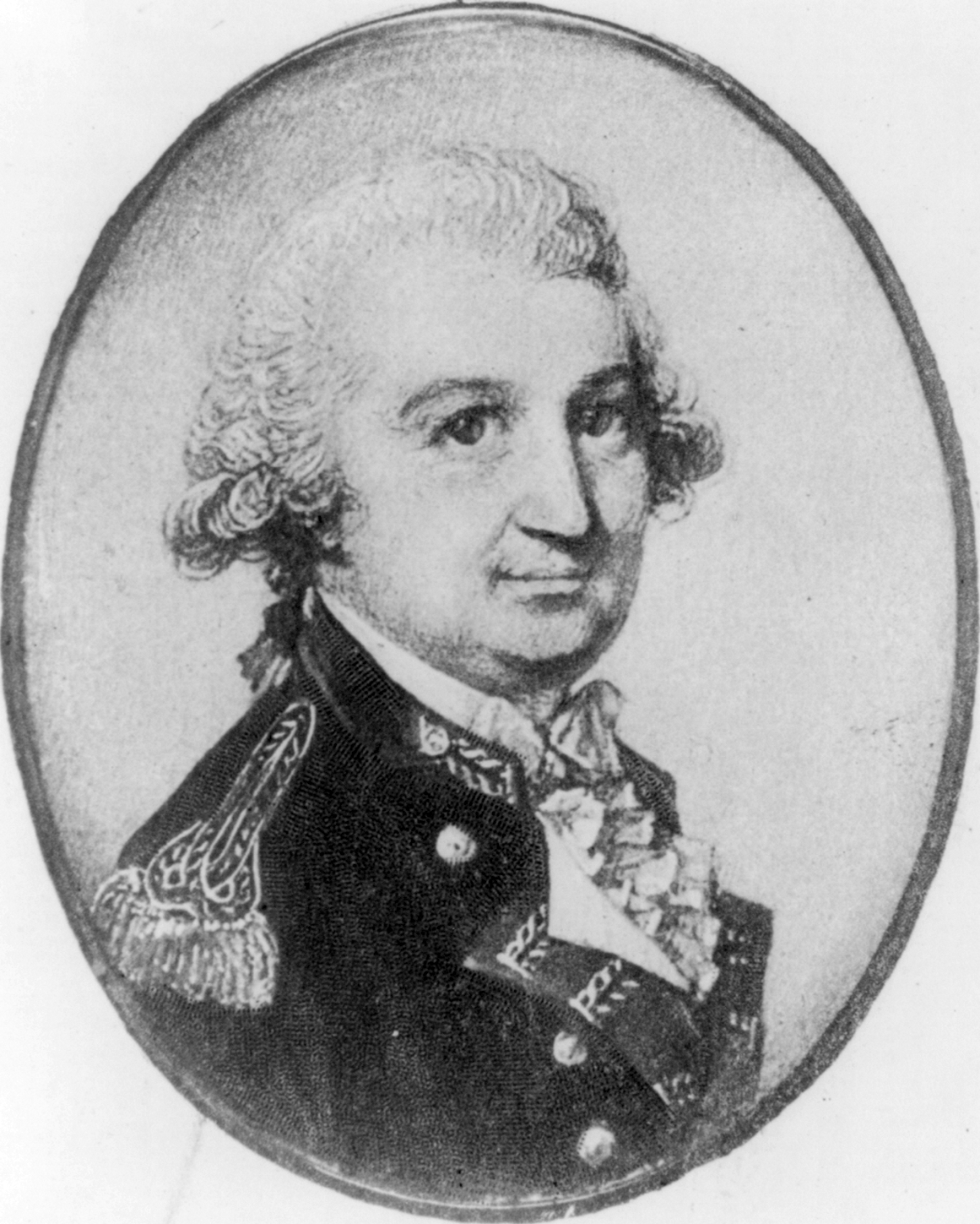 British general Oliver De Lancey Jr. (ca. 1749–1822). Black and white copy of red-tinted photogravure after a miniature.